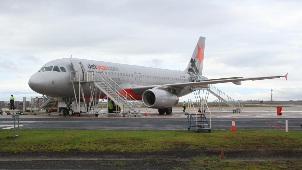 Jetstar's Airbus A320 VH-VQY at Avalon Airport